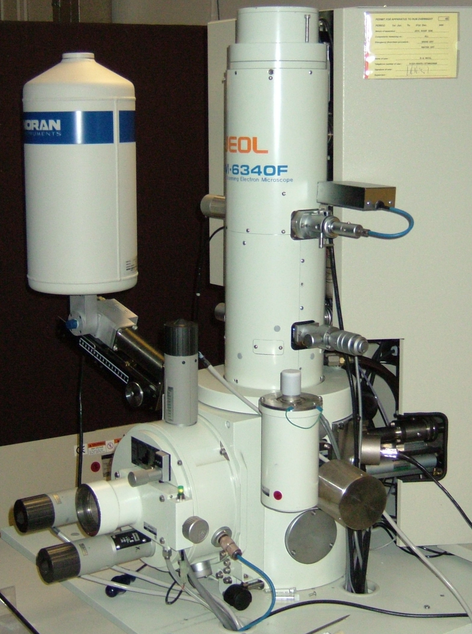 Picture of a scanning electron microscope JEOL JSM-6340F taken at the University of Cambridge.